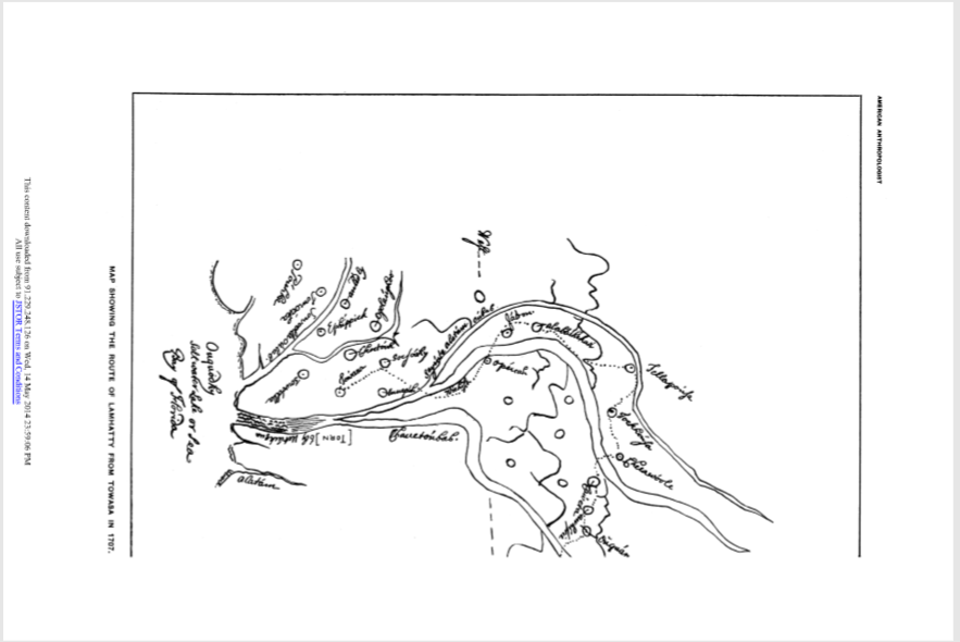 This photo shows the route taken by Lamhatty.